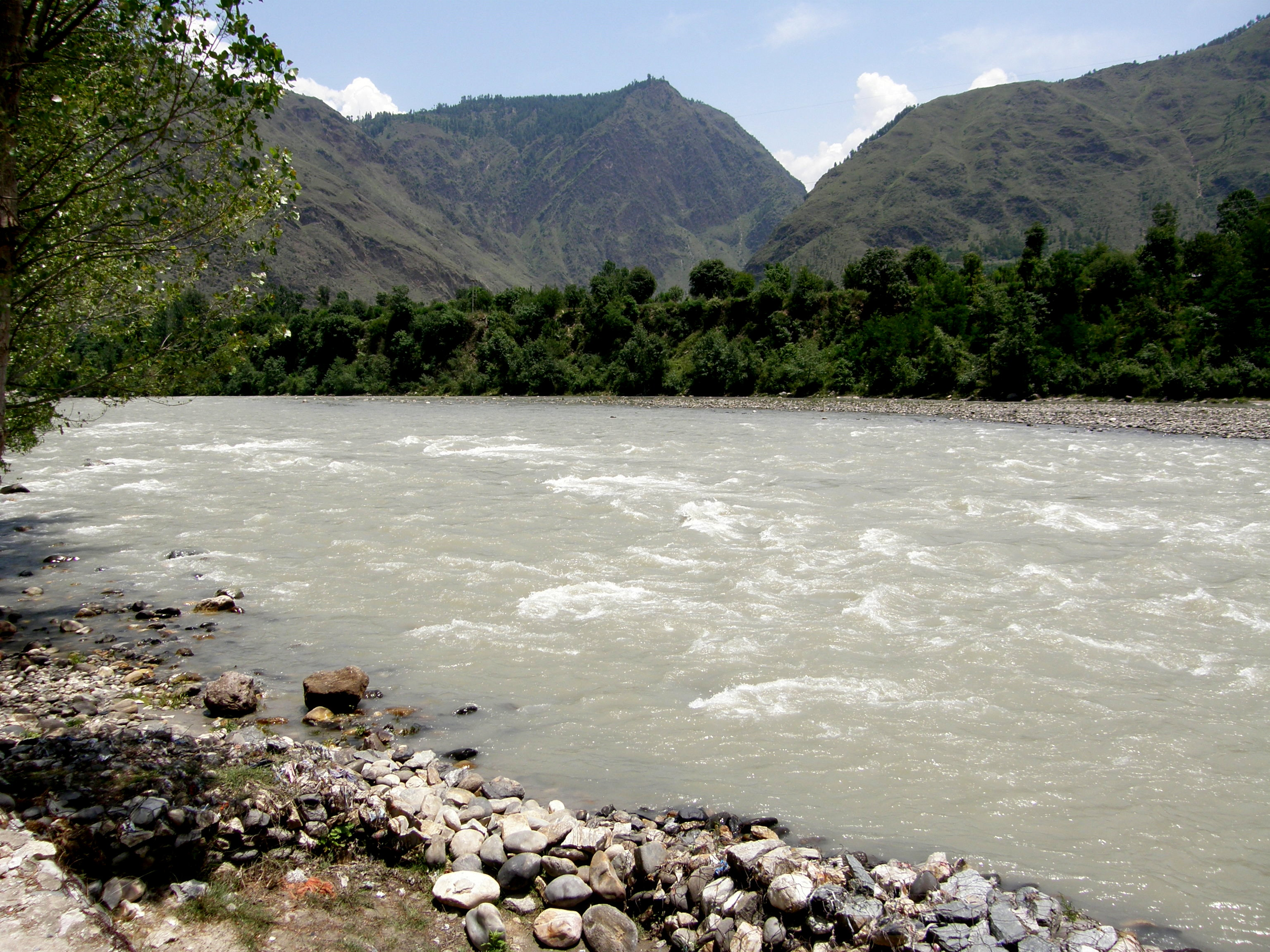 Land , Water, Himalaya foothills and sky - Beas River in Kullu south of Manali Himachal Pradesh India